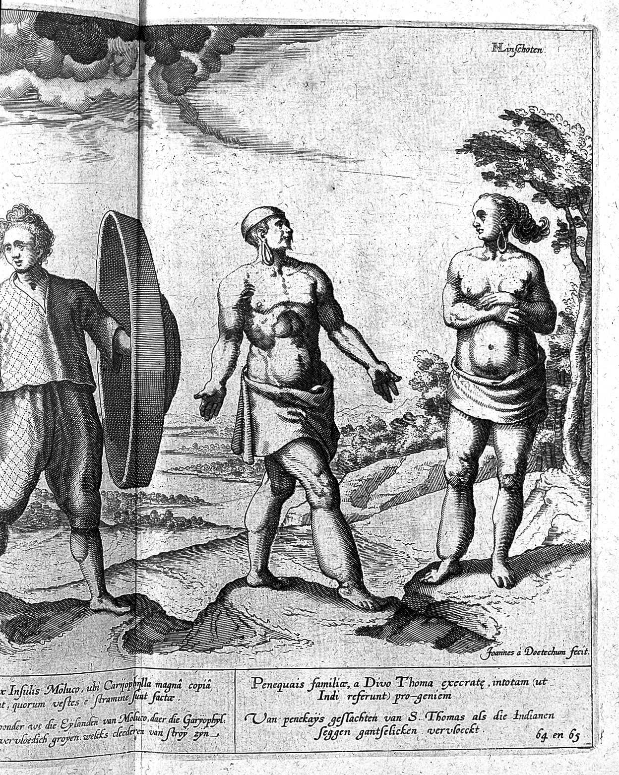 Rare Books Keywords: tropical diseases; Elephantiasis; Jan Huggen Van Linschoten